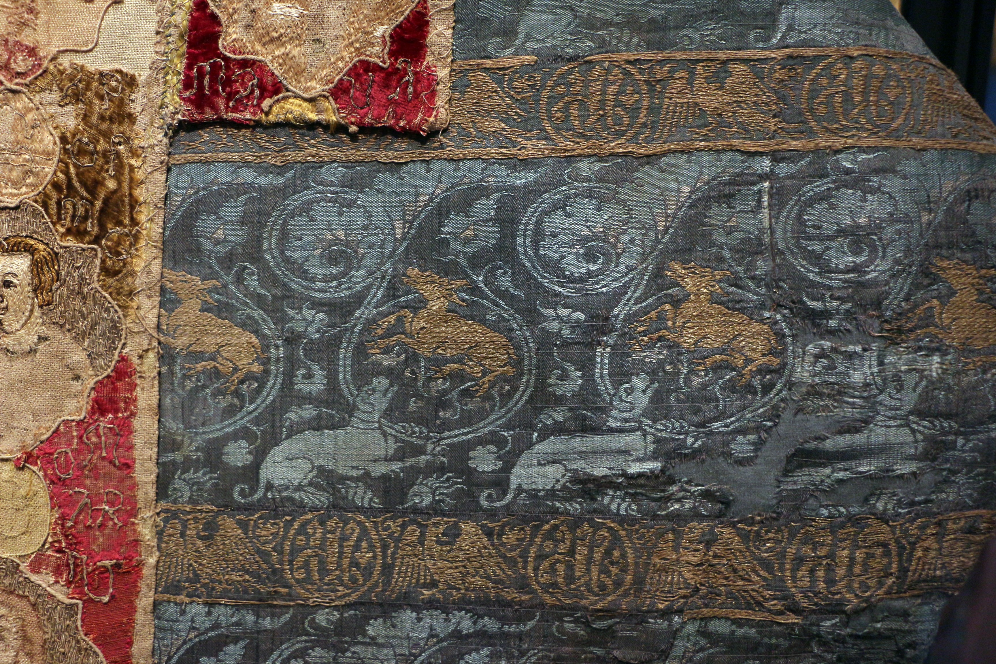 Restituzioni 2016